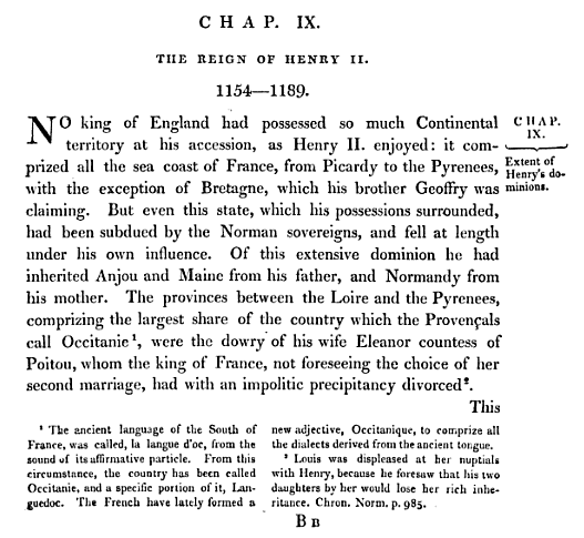 "Occitanie" in French in a Sharon Turner's book